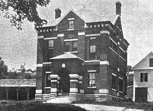 Public library, Massachusetts